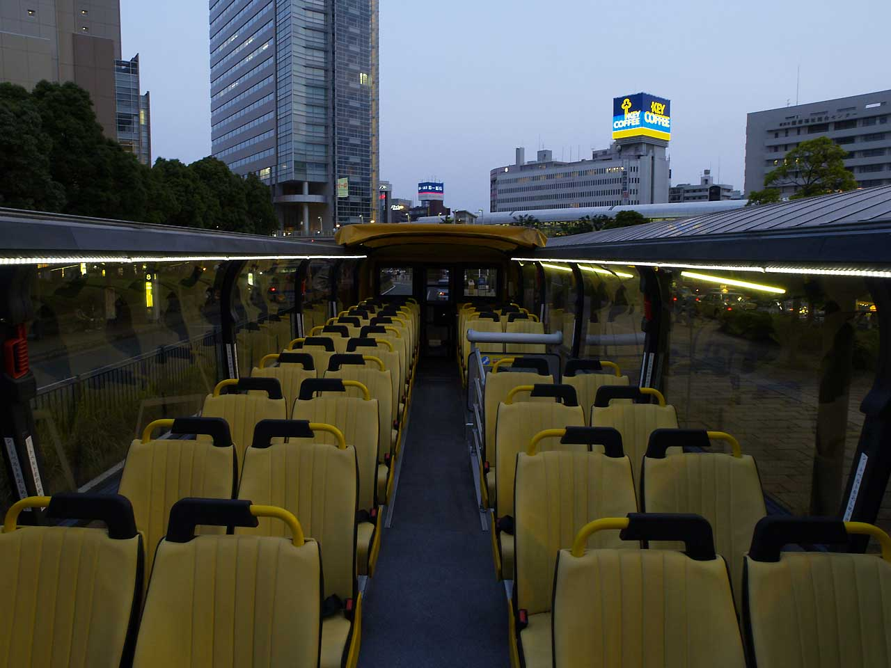 Cabin of "Sky Bus Tokyo" fleet. based Neoplan Spaceliner N117/2 Seat manufacturer: Vogelsitze